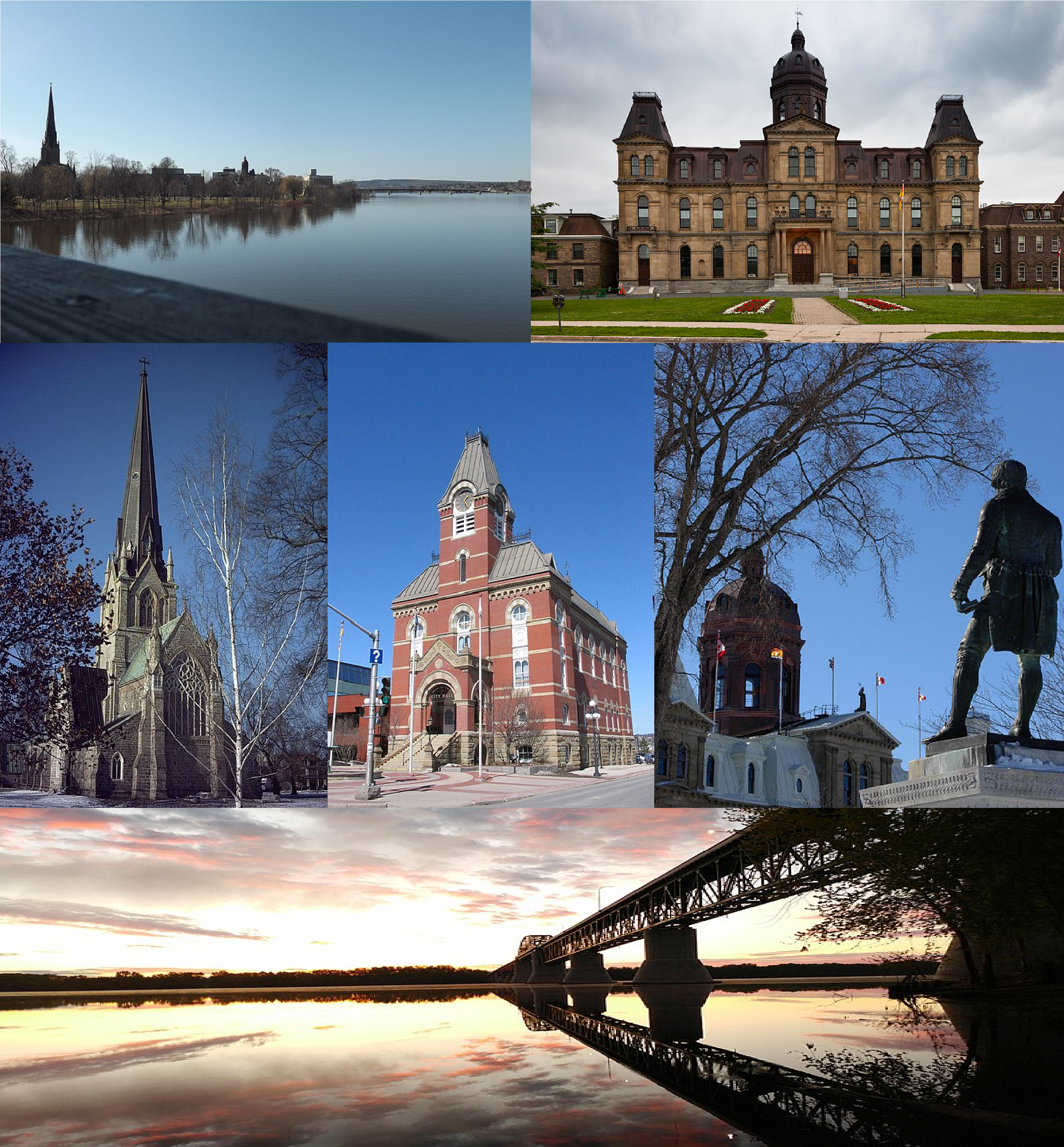 Fredericton montage